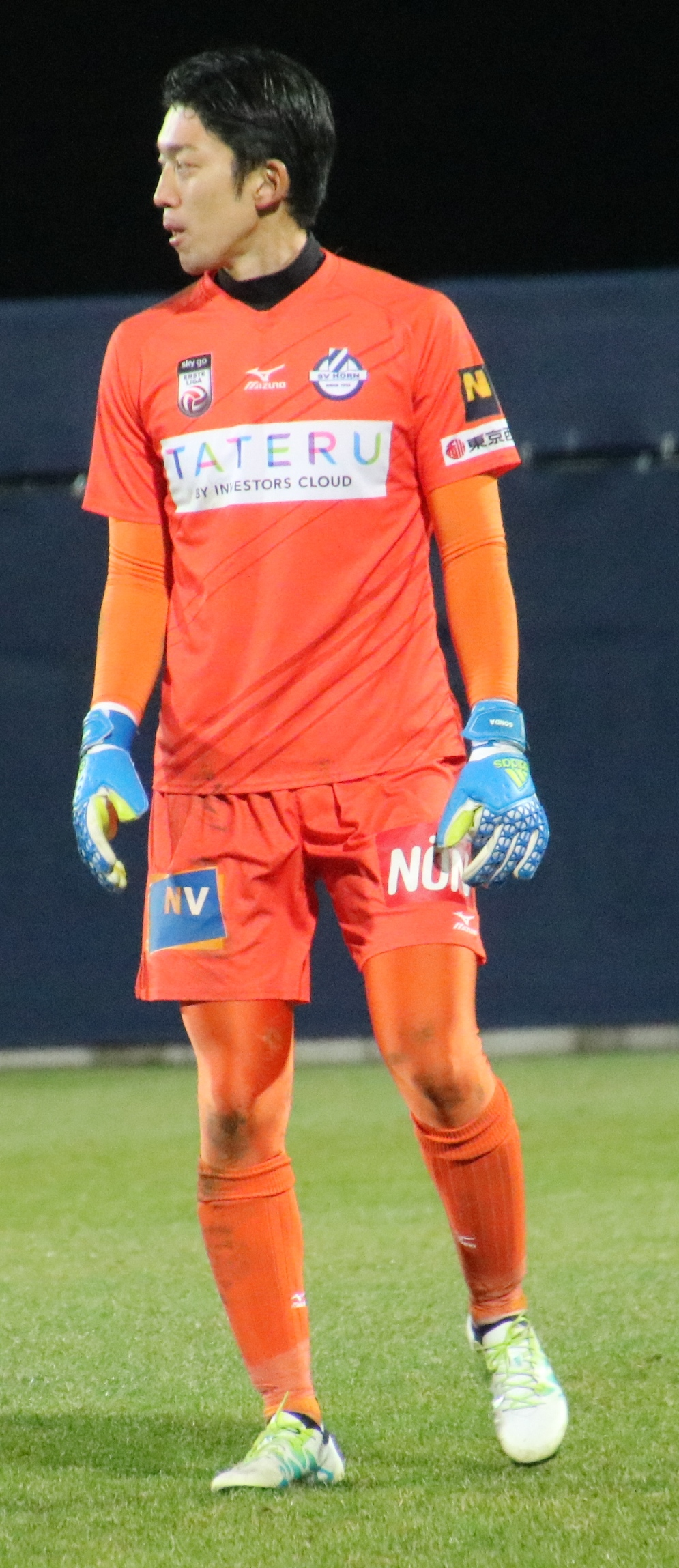 league match Austria 2nd league